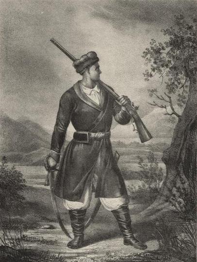 Ukrainian cossacks of the early eighteenth century.